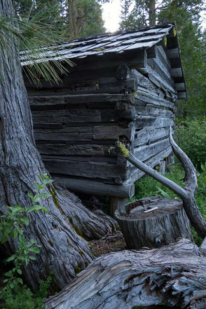 Historic Nye Cabin in the Snow Mountain Wilderness. U.S. Forest Service/Marc Garman